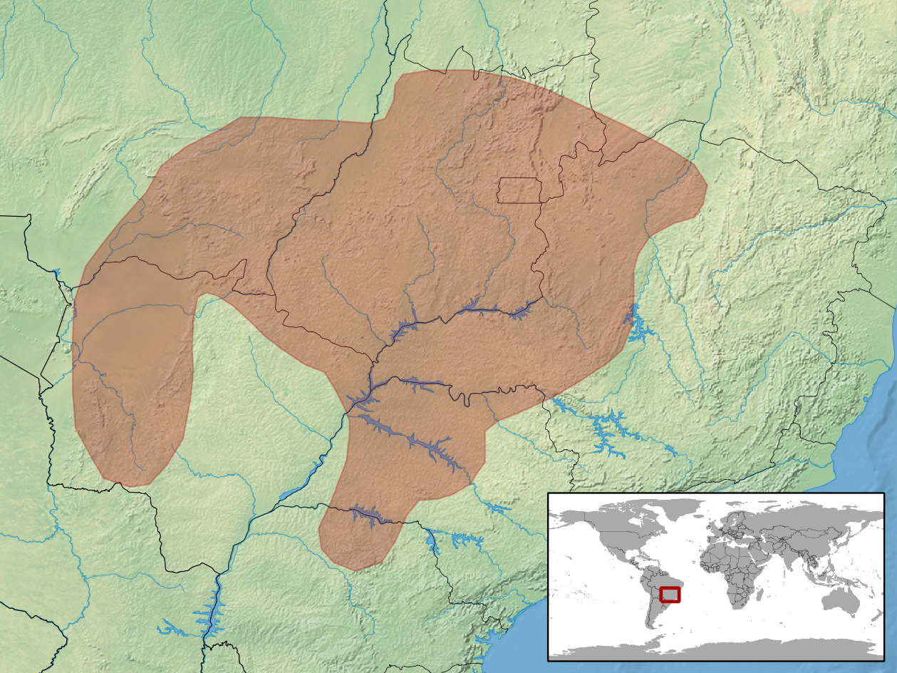 geographic distribution of Rhinocerophis itapetiningae (Native: Brazil (Goiás, Mato Grosso, Minas Gerais, Paraná, São Paulo))